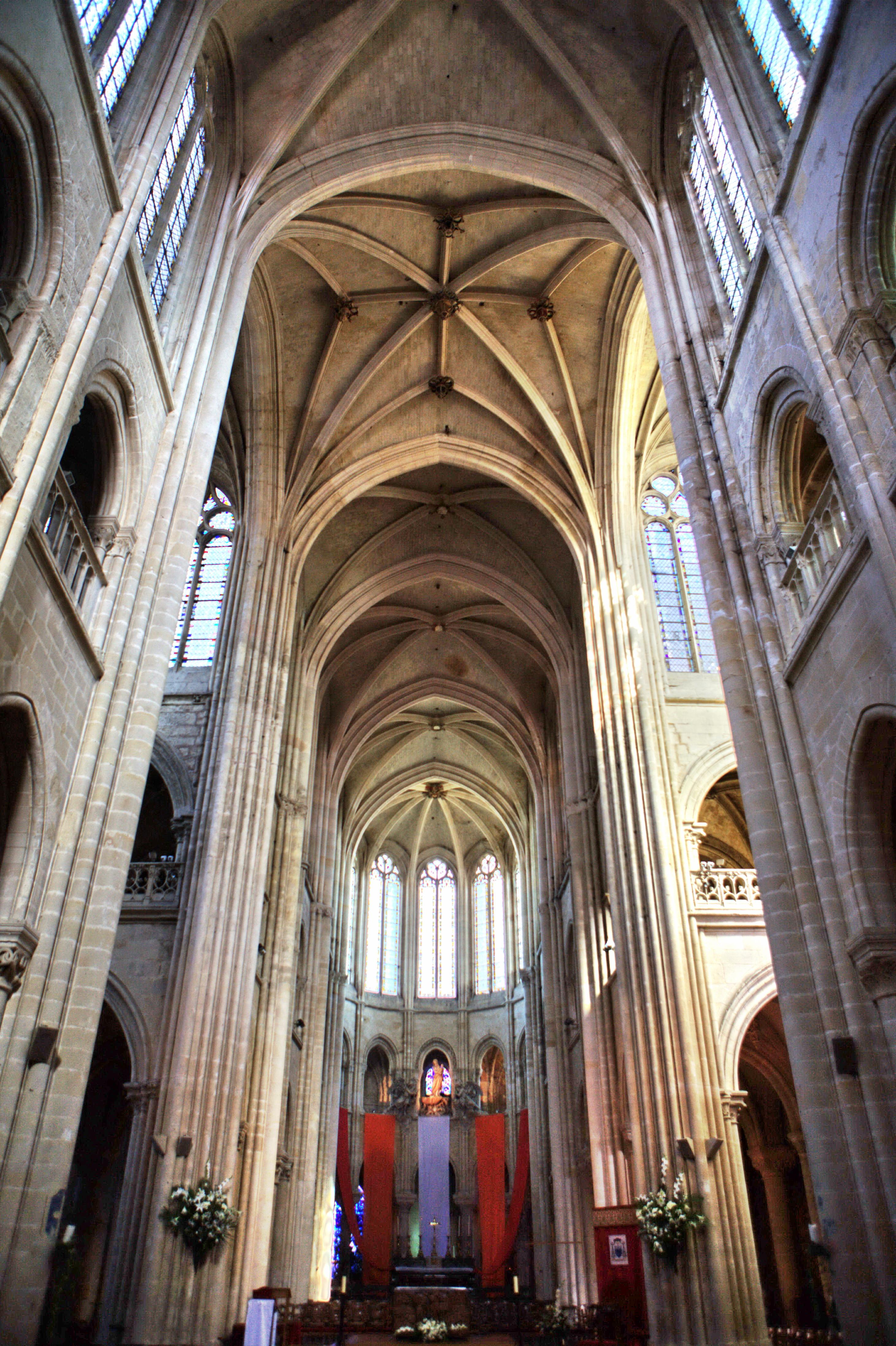 Notre-Dame de Senlis